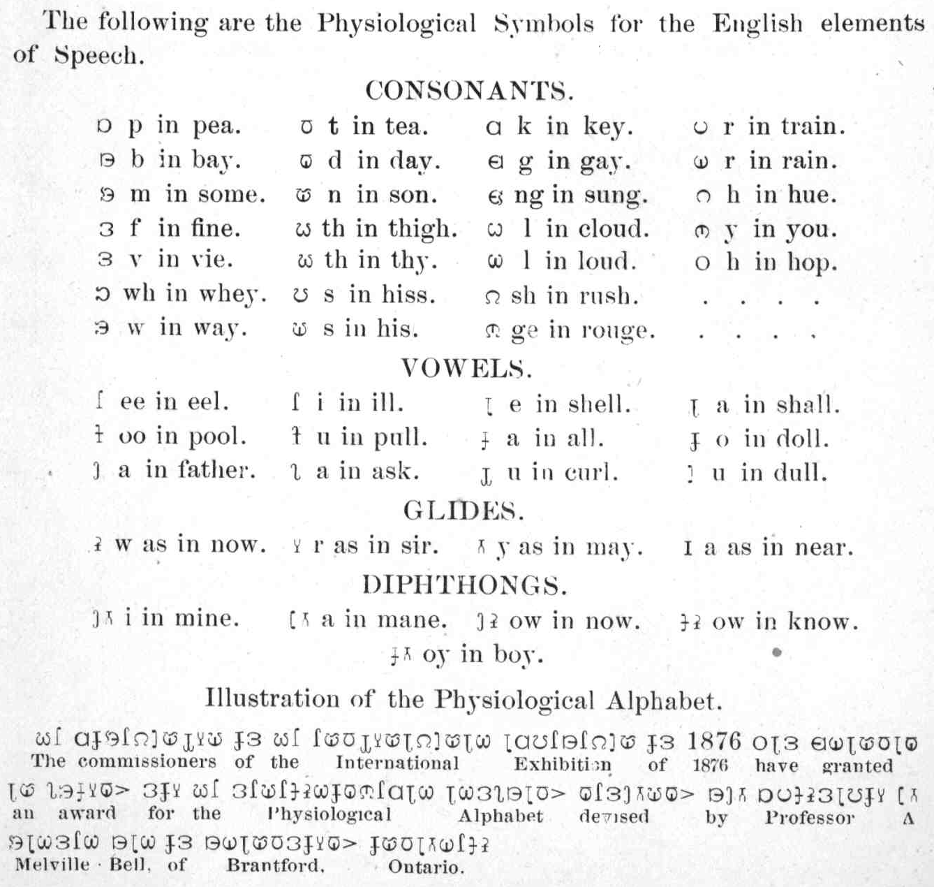 Chart of English sounds written in Visible Speech from a On the Nature and Use of Visible Speech by A.G. Bell (1872)